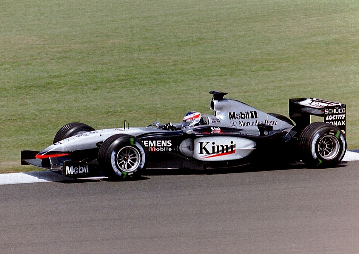 Kimi Räikkönen, driving his West McLaren Mercedes at the 2003 British Grand Prix.